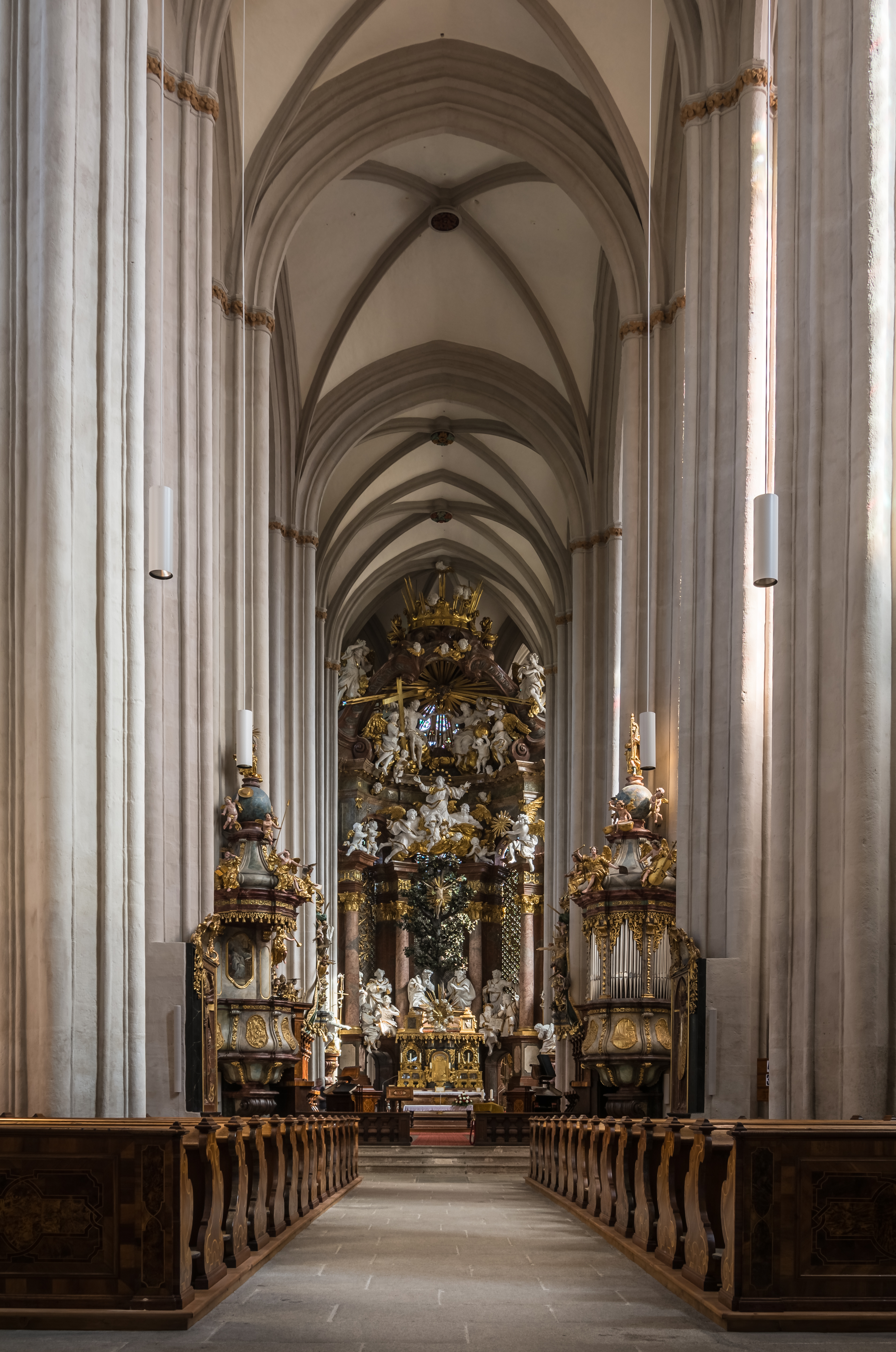 Interior of Zwettl Abbey Church, Lower Austria